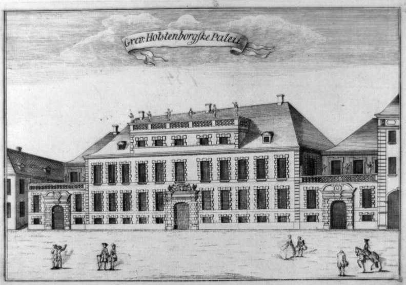 Townhouse of the count Ulrich Adolph Holstein, chancellor, at Kongens Nytorv (since demolished).